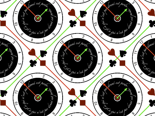 This picture represents the result of a conformal transformation of the complex plane tiled by a clock. Here: a similitude z ↦ a z + b {\displaystyle z\mapsto az+b} .